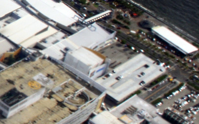 View of SM Mall of Asia Complex from the airplane